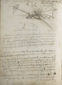 Codex on the Flight of Birds, Ms B Fol 88v - Design for a flying machine or catapult